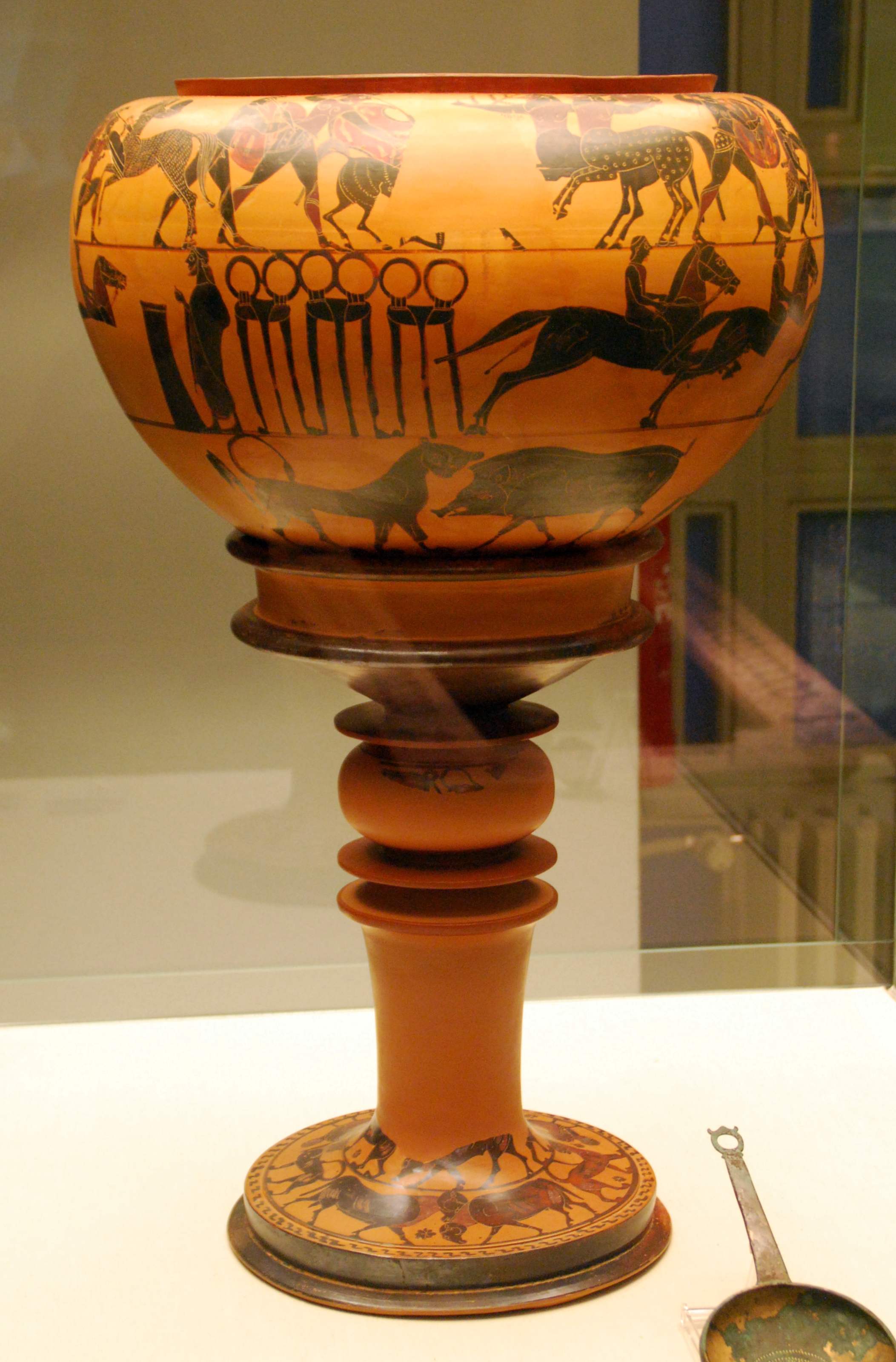 Uploaded Raw material, everybody can work on Names, Categories, Descriptions and so on.. - pictures of descriptions should be deleted after usage.